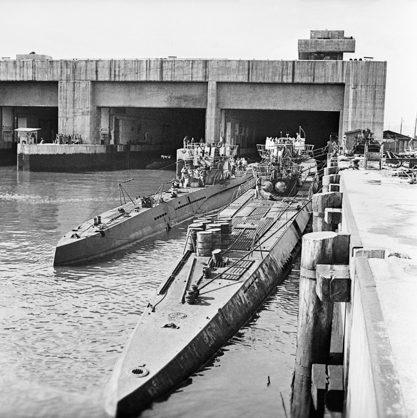 Captured German U-boats outside their pen at Trondheim in Norway, 19 May 1945. Axis Forces: A Type VII and a Type IX submarine alongside each other outside the submarine pens at Trondheim after the war.